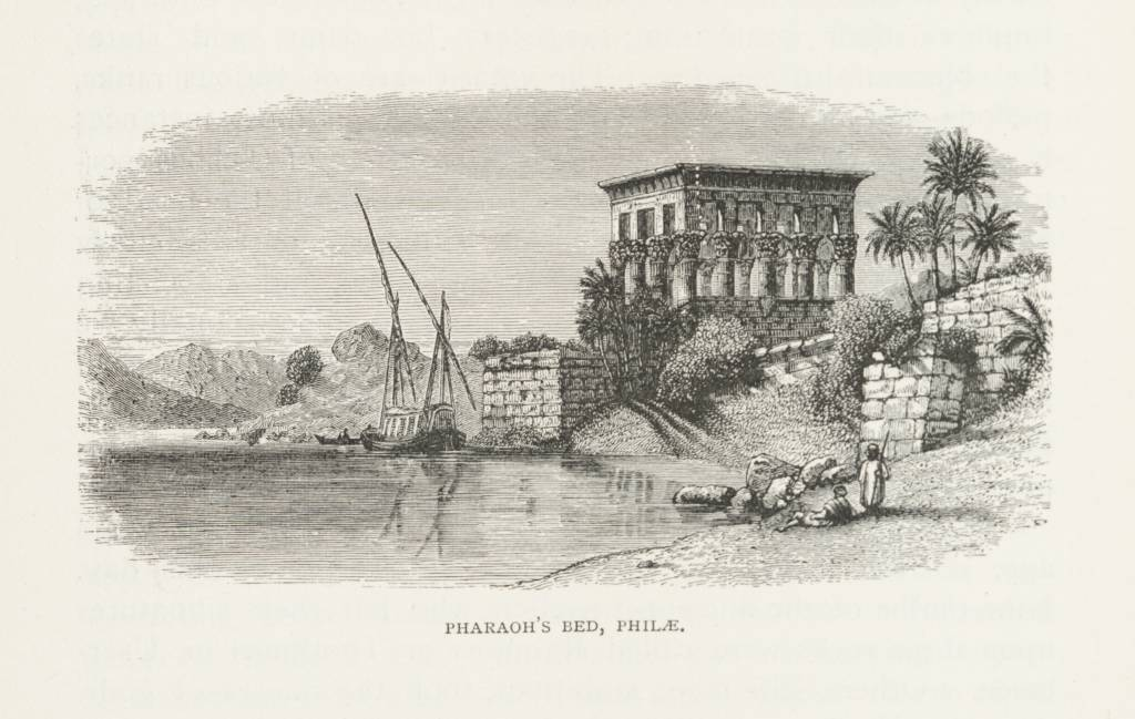 A boat is docked near the base of an open building with pillars, two figures recline on the shore.